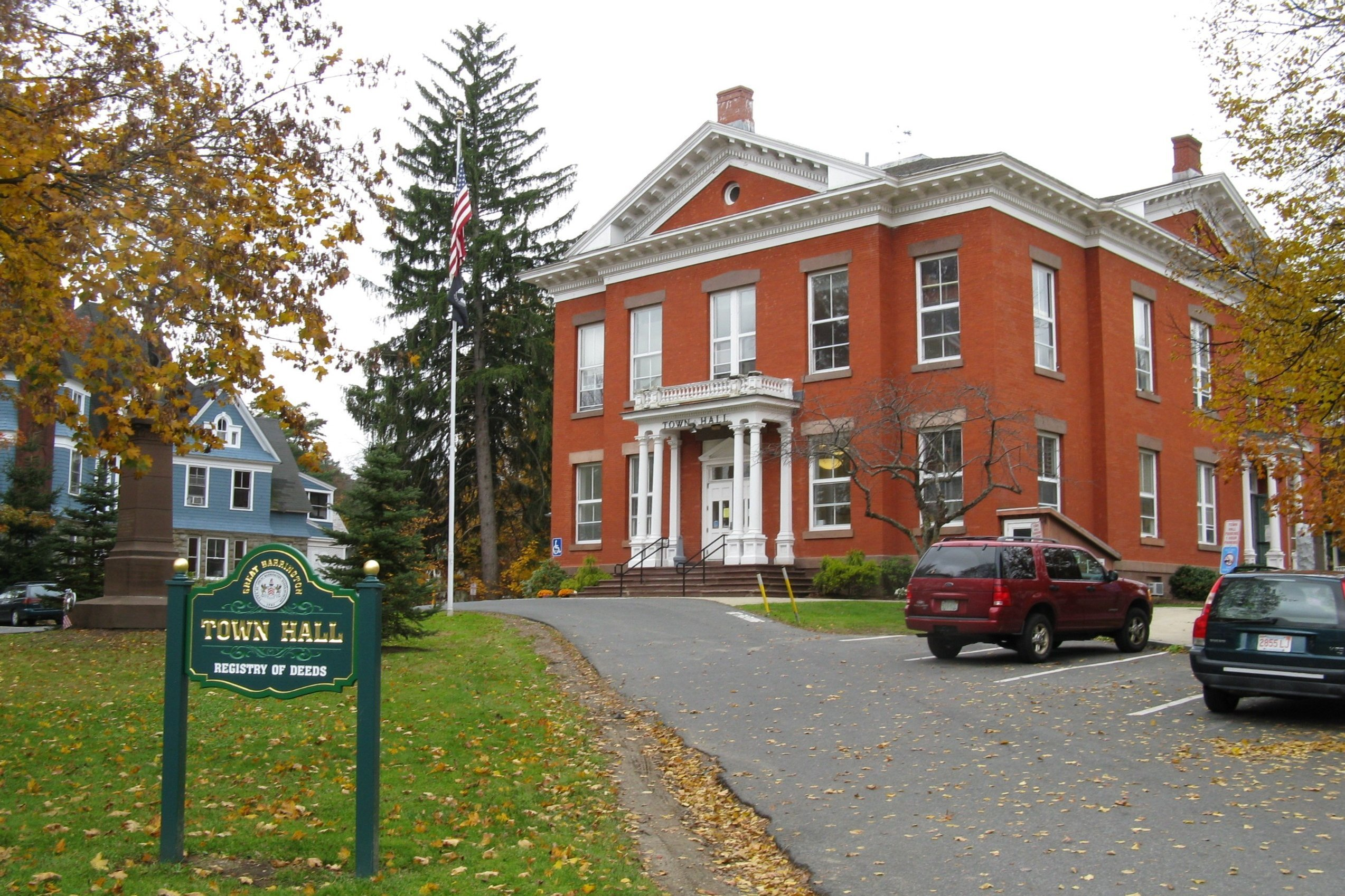 Town Hall, Great Barrington Massachusetts, October 2009